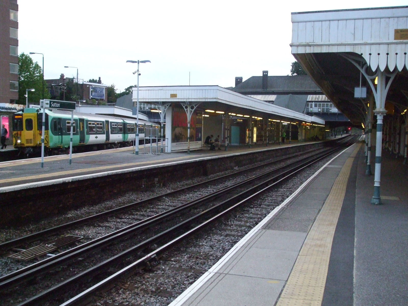 Sutton railway station looking west from platform 1. A Class 455 unit can be seen on platform 4 awaiting return to London.